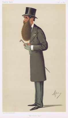 Caricature of Mr James Lloyd Ashbury MP. Caption read "The Ocean Race".